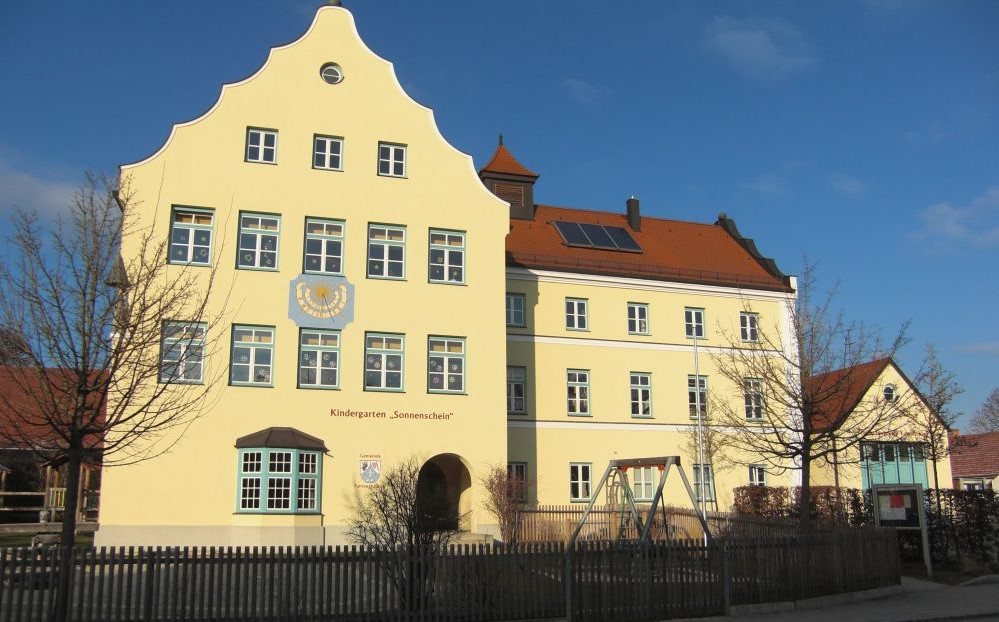 Kindergarten and fire station in Kammerberg (Fahrenzhausen), Bavaria, Germany